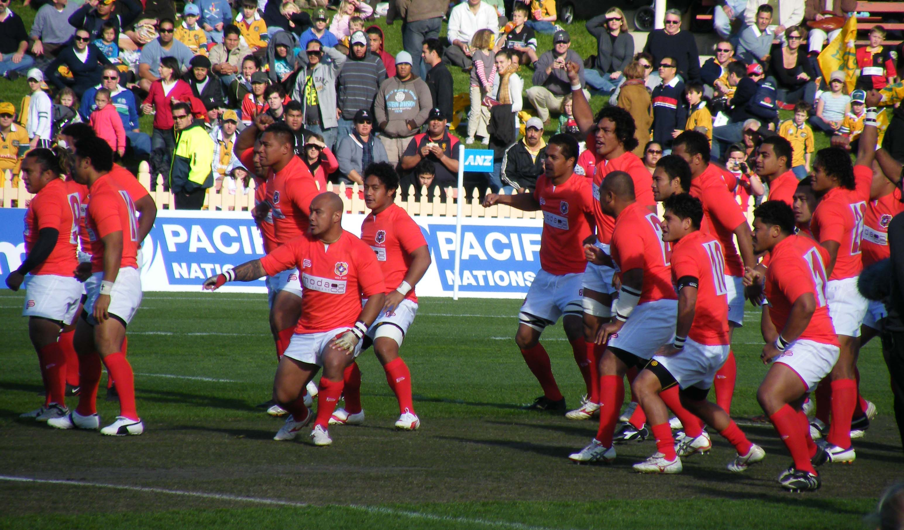 The Tongan Rugby Union team perform their pre match ritual the 'Sipi Tau' prior to taking on Australia A in the Pacific Nation Cup